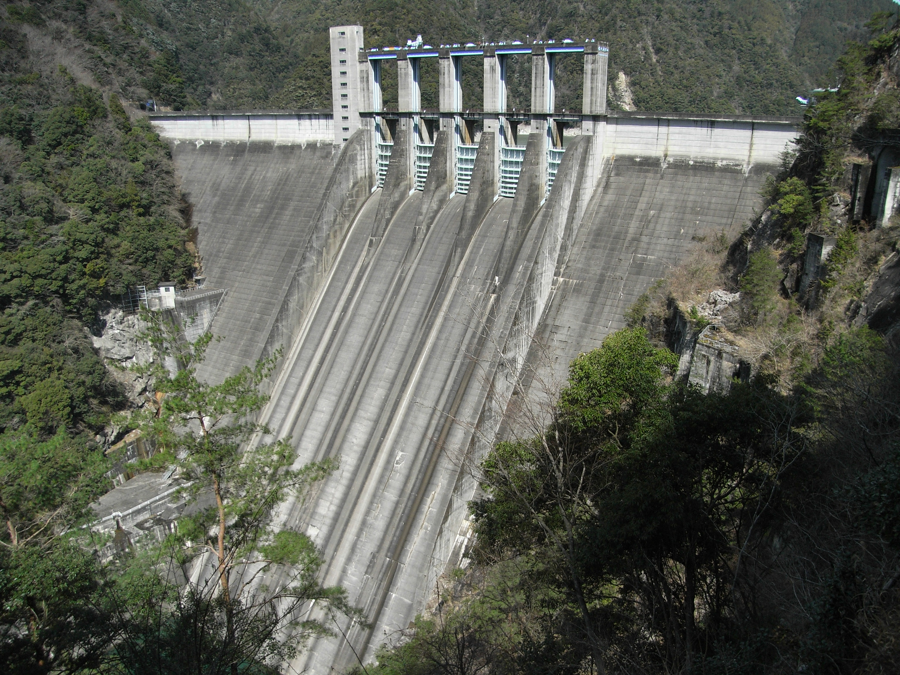 Sakuma dam (Tenryugawa river, Shizuoka Pref.&Aichi Pref., Japan)